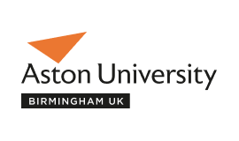 Copyrighted official logo for Aston University, UK.